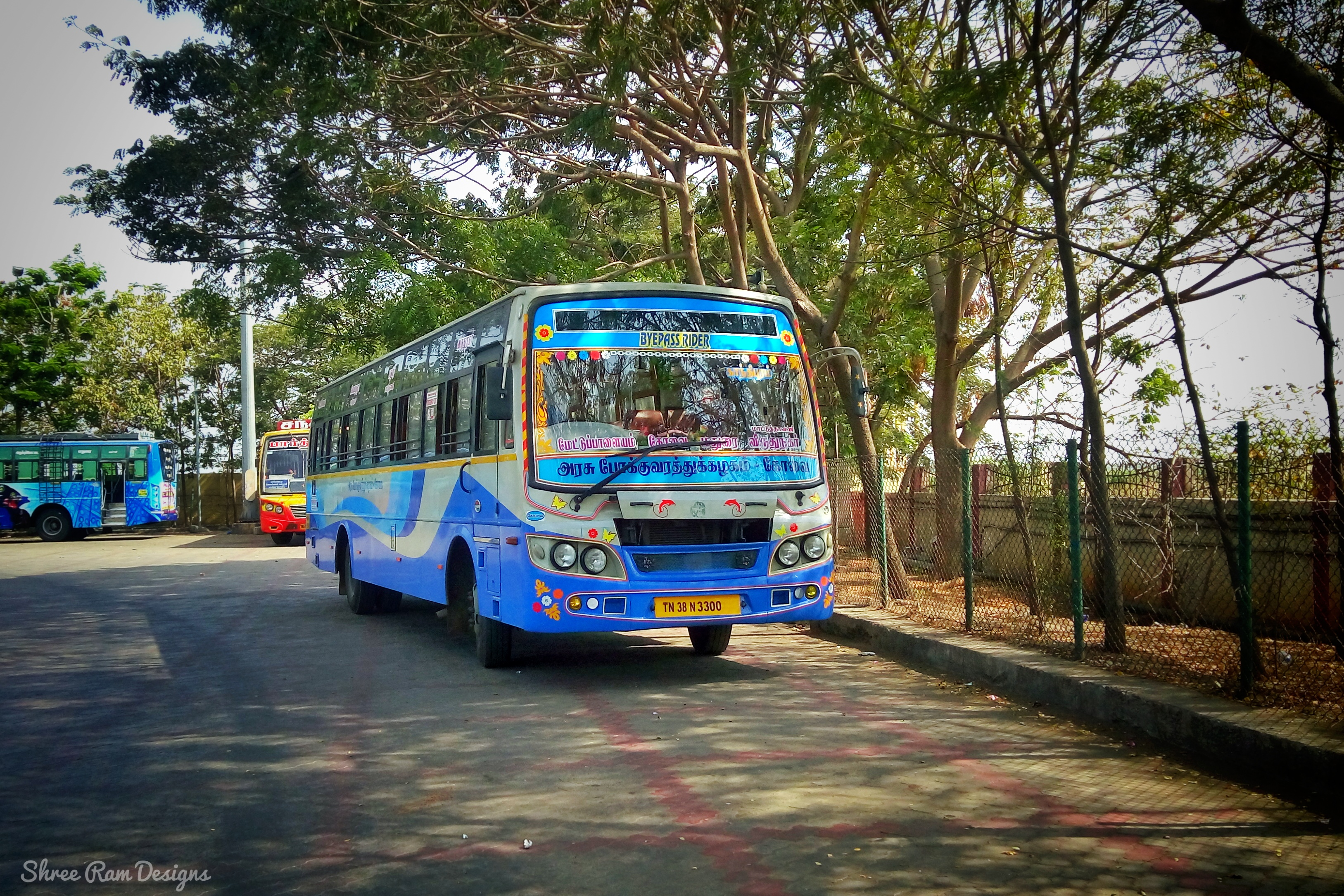 mettupalayam virudhunagar by pass rider